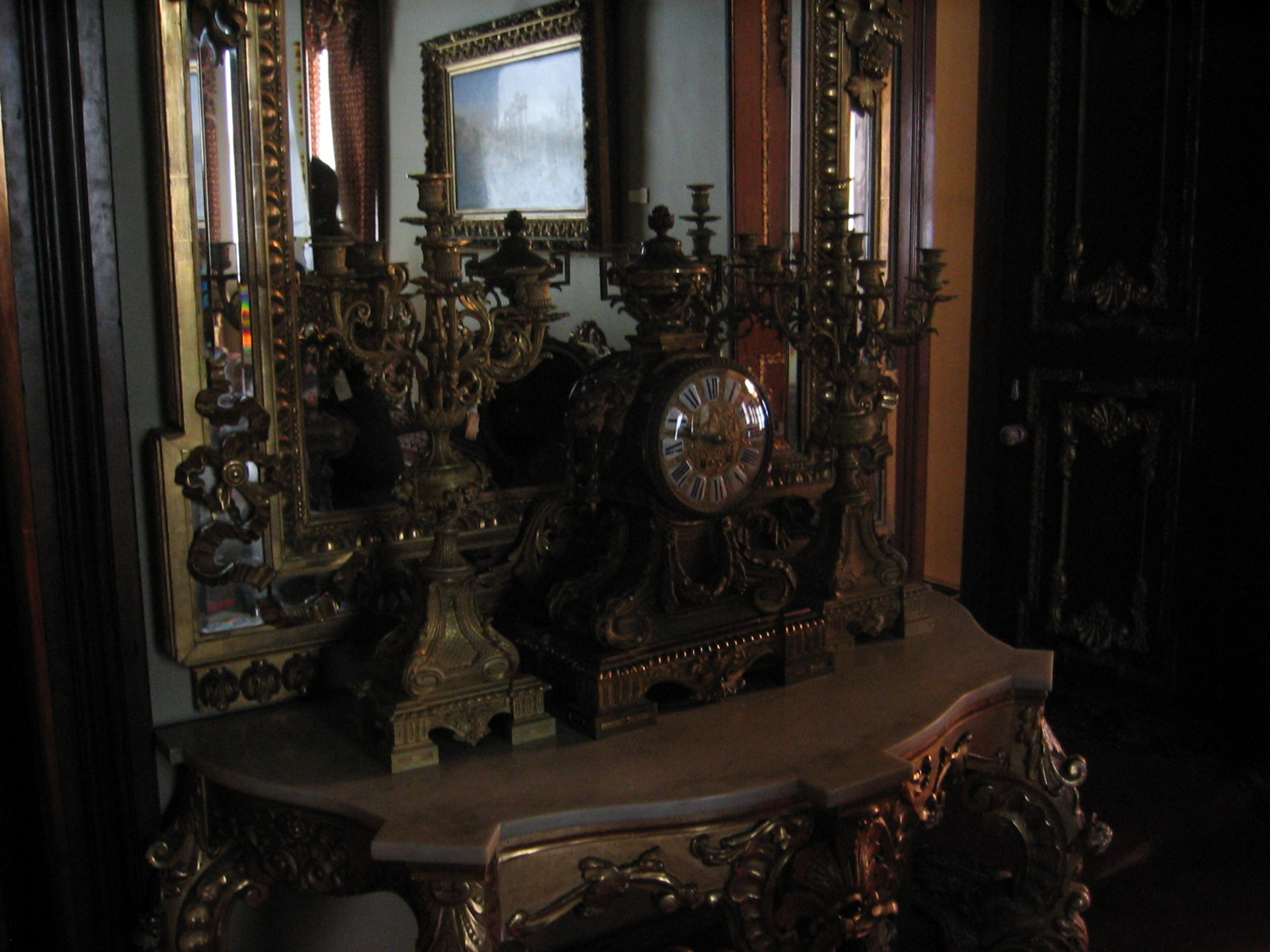 Istanbul, Turkey